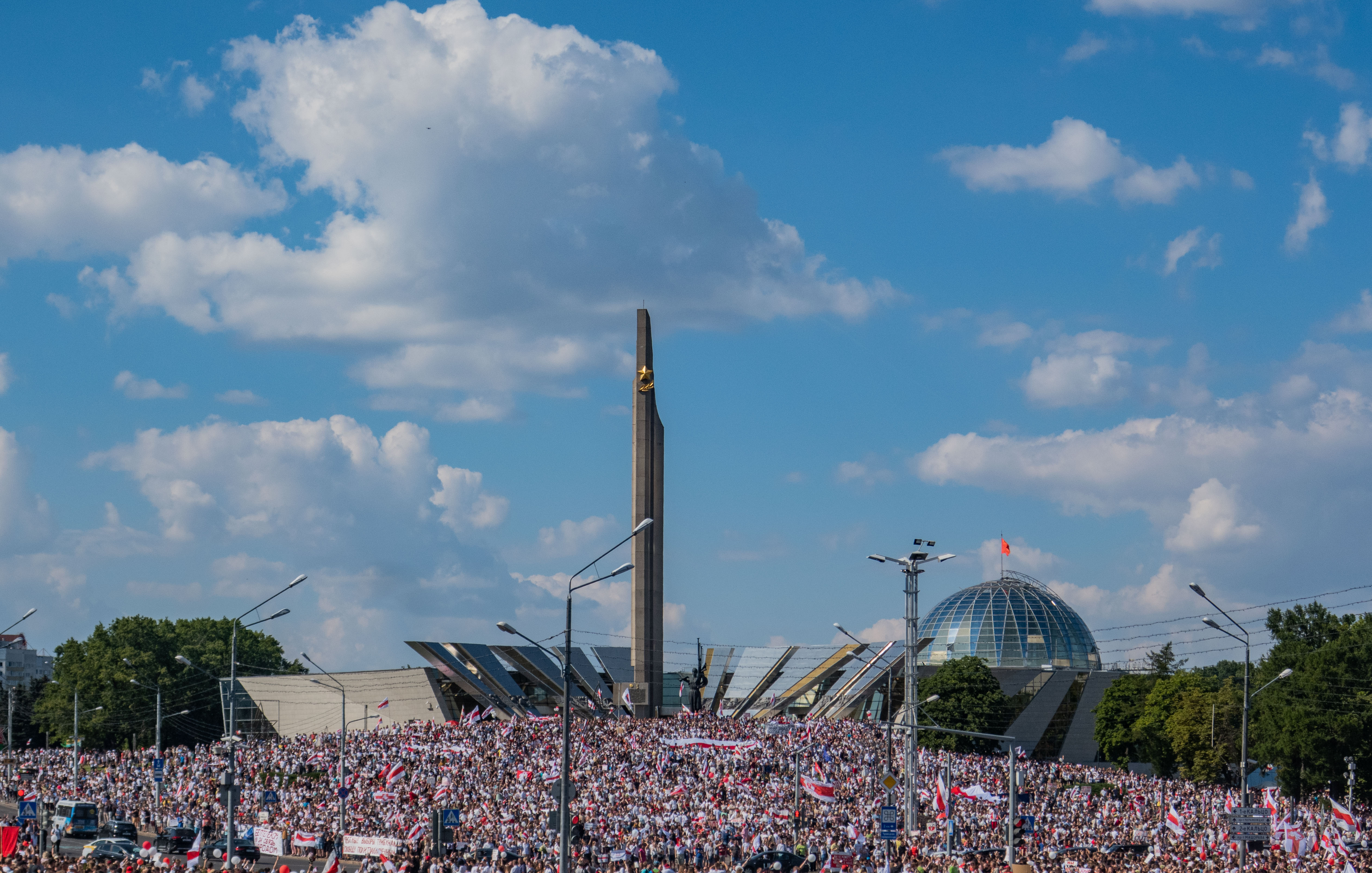 Protest rally against Lukashenko, 16 August. Minsk, Belarus